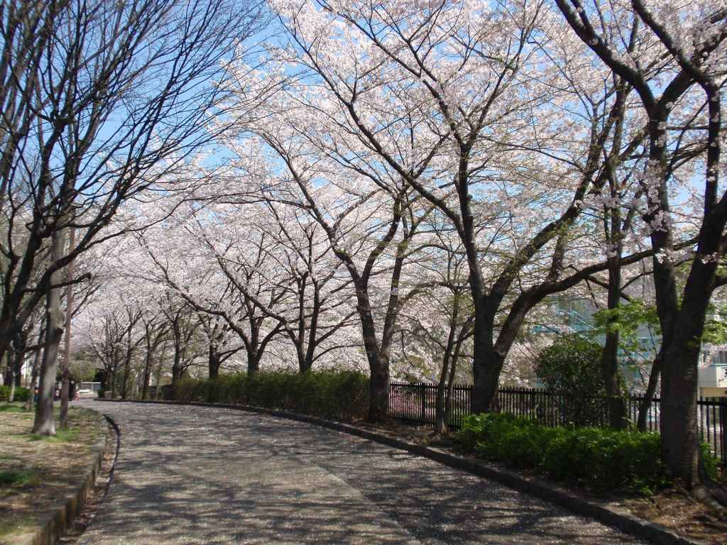 Pedestrian walk "Hikinomichi" / Higashimatsuyama-city, Saitama-pref, Japan